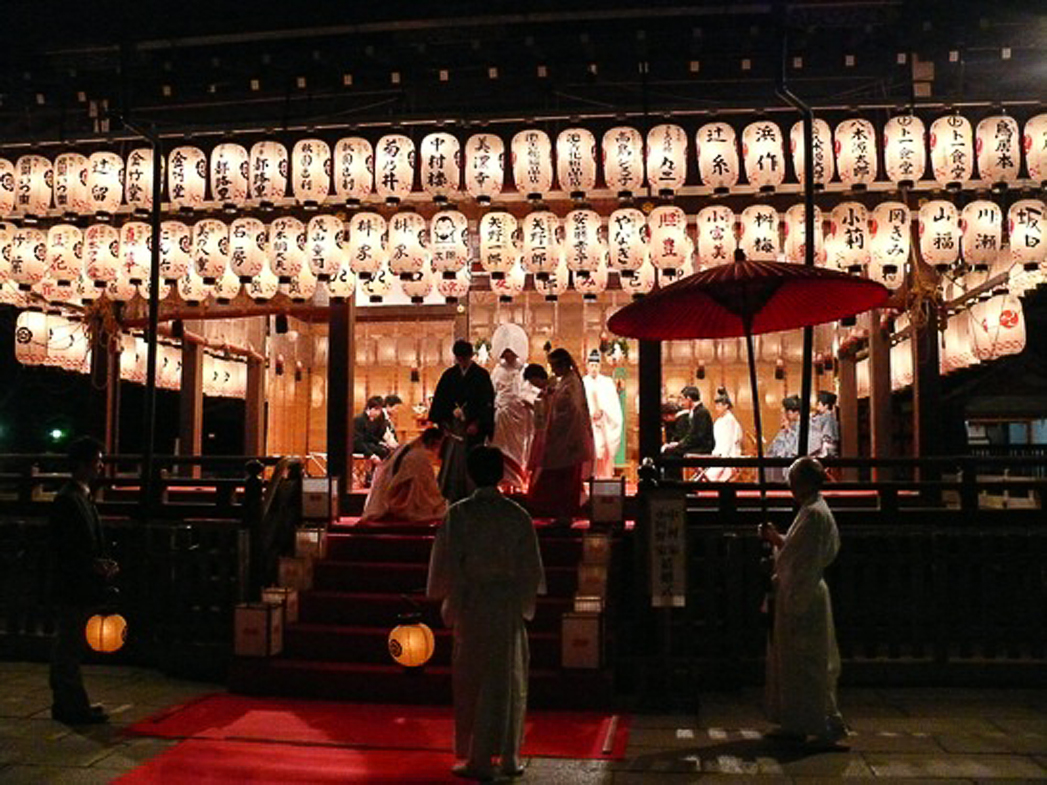 Japanese wedding at Yasaka Shrine in Kyoto.